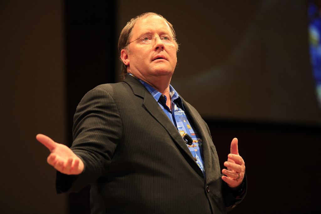 Event: Meet the Media Guru | John Lasseter Date: 21st November 2011 Venue: Teatro Dal Verme, Milan, Italy Twitter: @mmguru / #MMGLasseter Photo by Paolo Sacchi